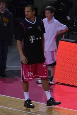 taken during professional basketball game in Germany